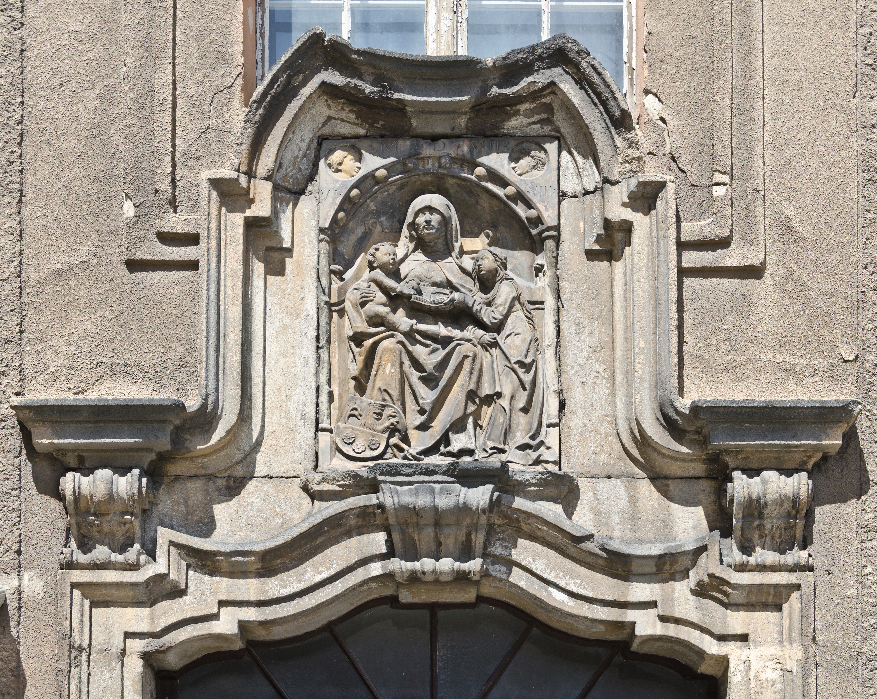 8 Katedralny Square in Nysa, relief Saint Anne